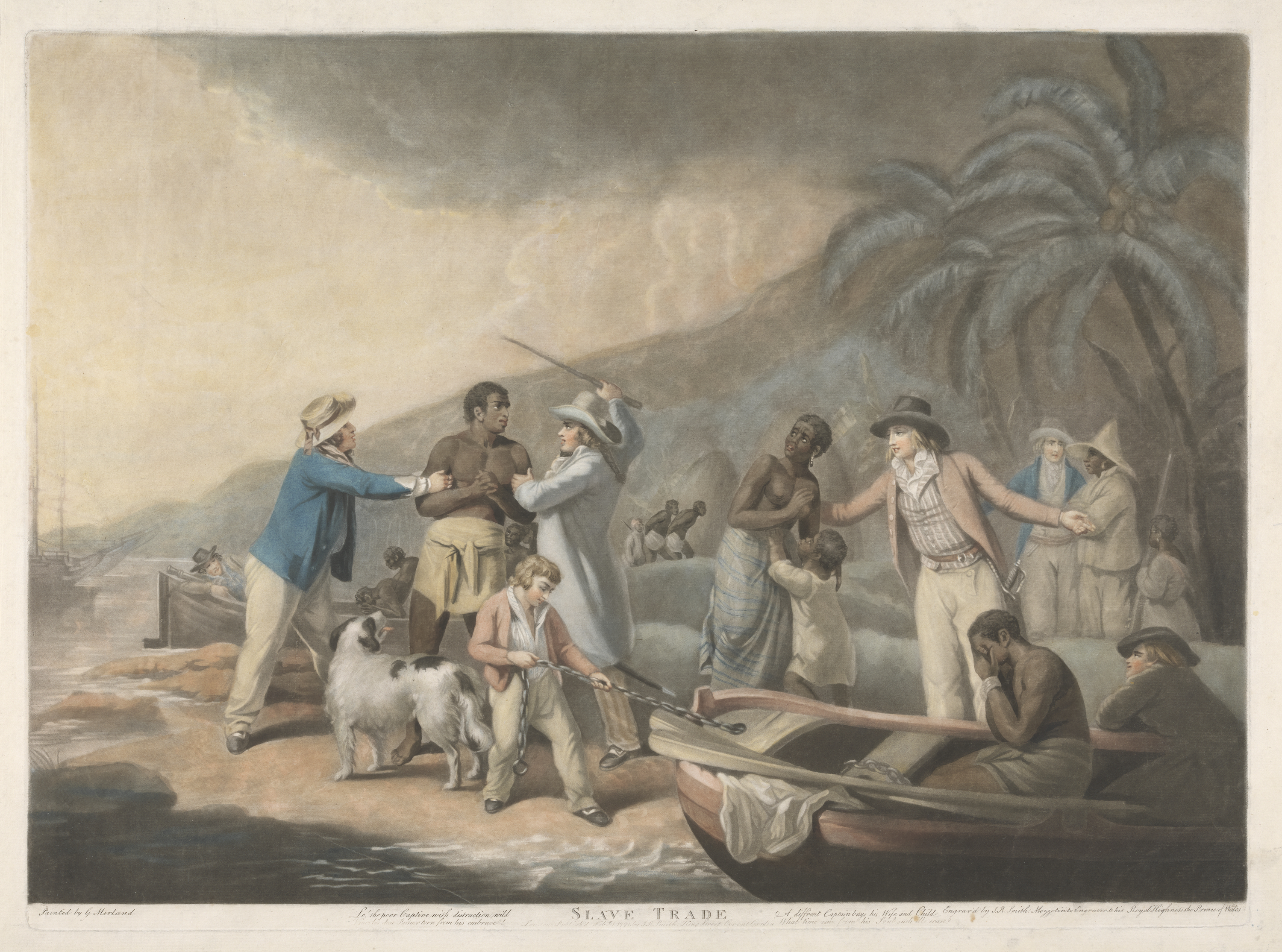 Slave Trade (1812)